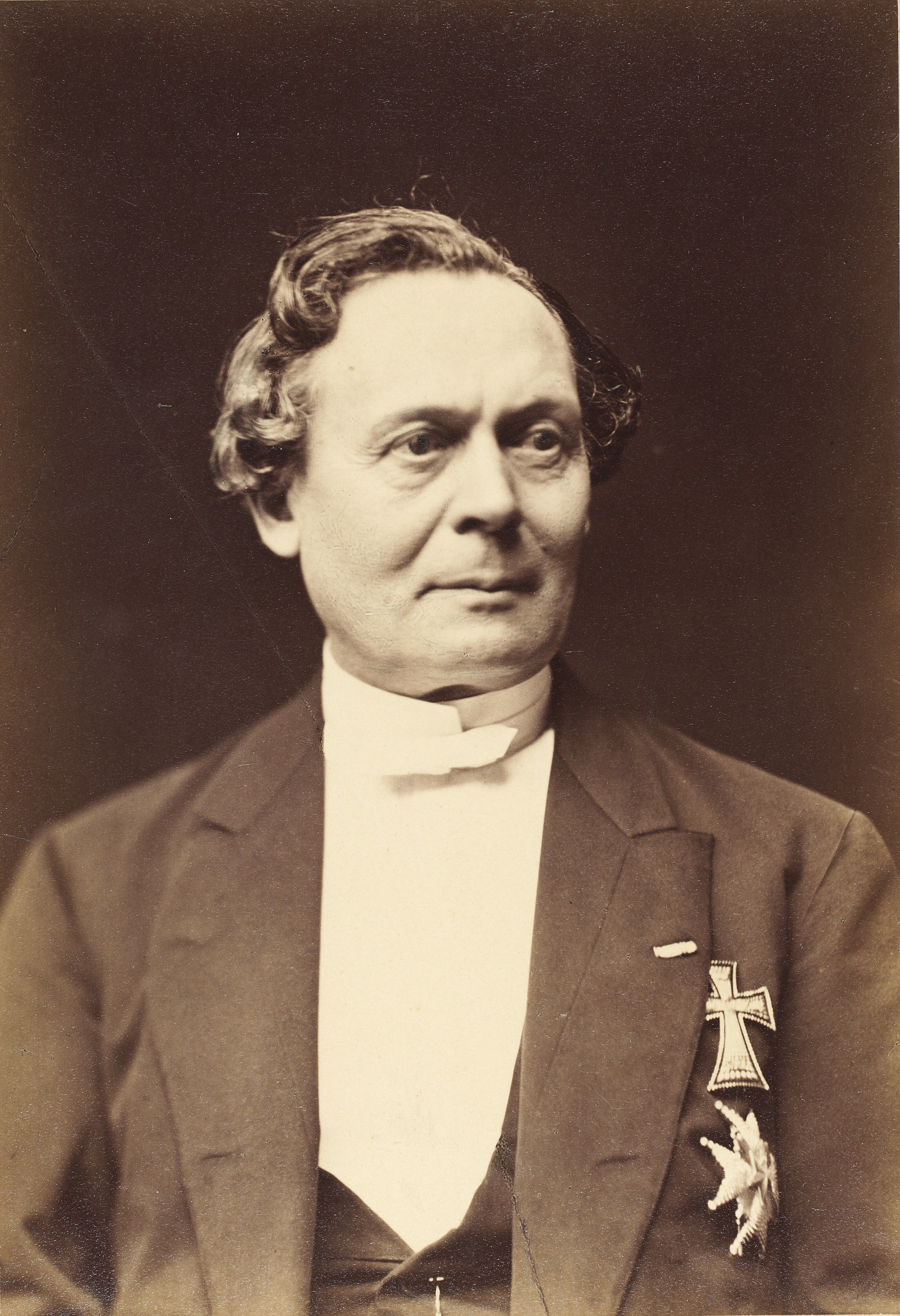 Jens Jacob Asmussen Worsaae (1821-1885), Danish historian and archaeologist